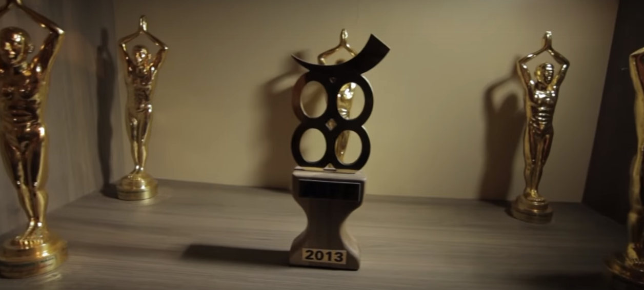 Some of the awards of Shirley Frimpong-Manso. She is a Ghanaian film director, writer, and producer. She is the founder and CEO of Sparrow Productions, a film, television and advertising production company She has won awards.